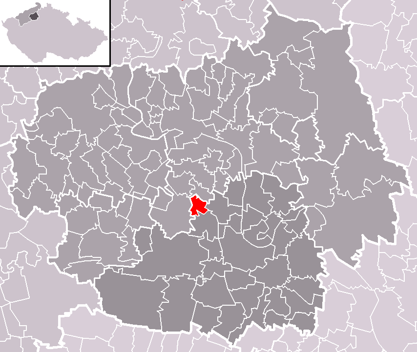 Location of Doksany municipality within Litoměřice District and administrative area of Roudnice nad Labem as a Municipality with Extended Competence.